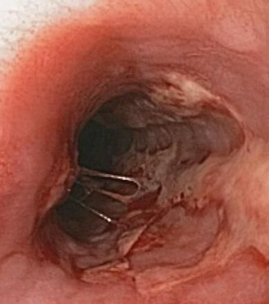 endoscopic view of herpes esophagitis